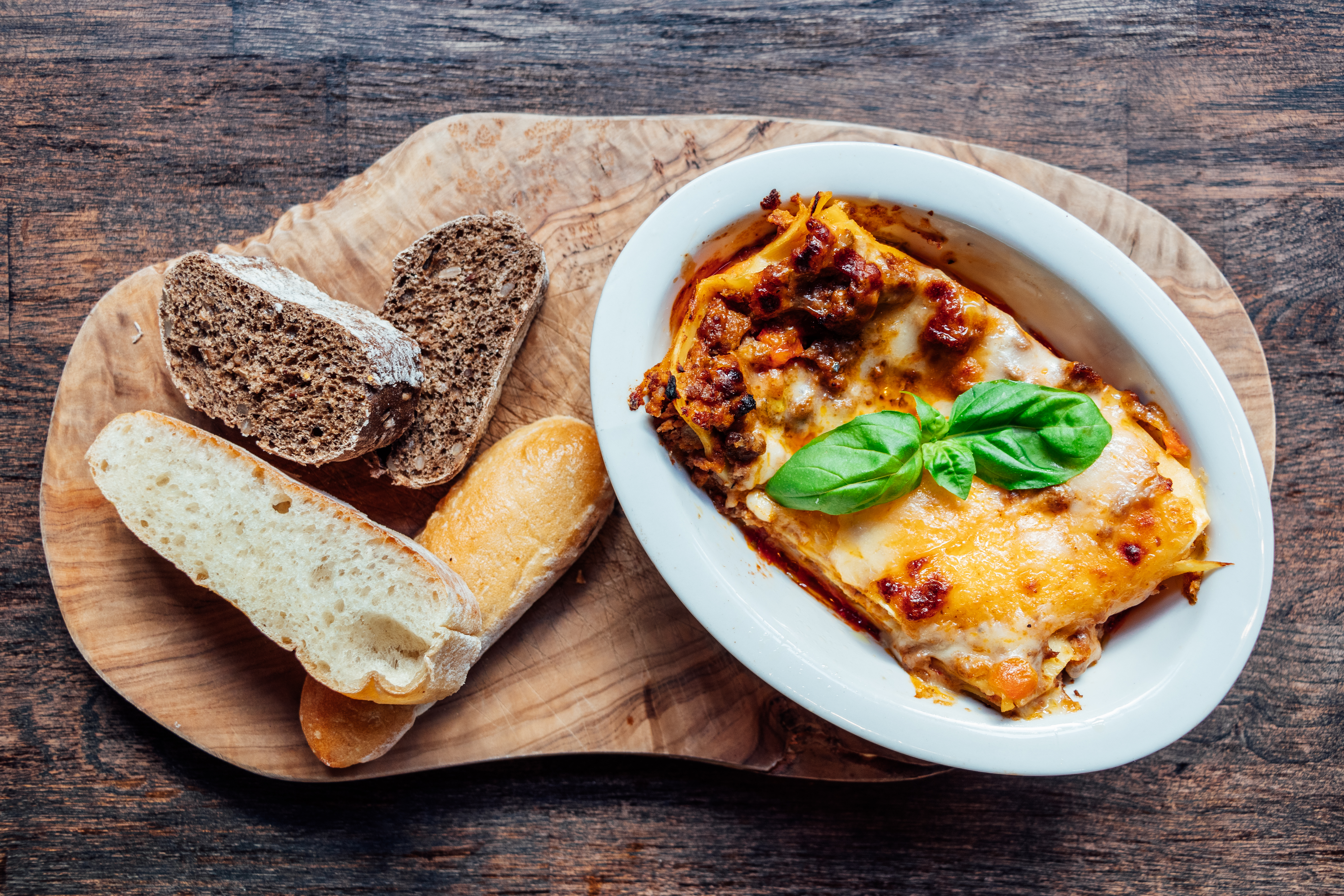 lasagne veeno